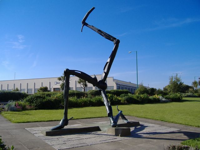 The Three Legs of Man, Ronaldsway Airport. By Bryan Kneale R.A. The motto "Quocunque Jeceris Stabit", which translates literally as "whithersoever you throw it, it will stand" accompanies the three legs on the Coat of Arms of the Isle of Man.